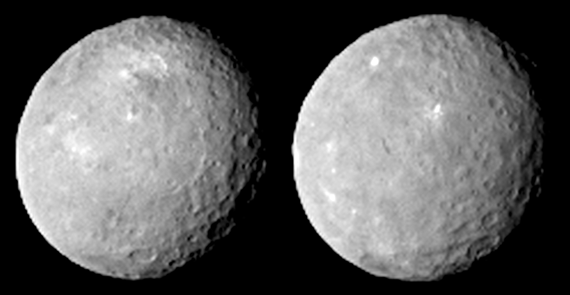 Dawn Approaches: Two Faces of Ceres These two views of Ceres were acquired by NASA's Dawn spacecraft on Feb. 12, 2015, from a distance of about 52,000 miles (83,000 kilometers) as the dwarf planet rotated. The images have been magnified from their original size. The Dawn spacecraft is due to arrive at Ceres on March 6, 2015. Dawn's mission to Vesta and Ceres is managed by the Jet Propulsion Laboratory for NASA's Science Mission Directorate in Washington. Dawn is a project of the directorate's Discovery Program, managed by NASA's Marshall Space Flight Center in Huntsville, Alabama. UCLA is responsible for overall Dawn mission science. Orbital ATK, Inc., of Dulles, Virginia, designed and built the spacecraft. JPL is managed for NASA by the California Institute of Technology in Pasadena. The framing cameras were provided by the Max Planck Institute for Solar System Research, Göttingen, Germany, with significant contributions by the German Aerospace Center (DLR) Institute of Planetary Research, Berlin, and in coordination with the Institute of Computer and Communication Network Engineering, Braunschweig. The visible and infrared mapping spectrometer was provided by the Italian Space Agency and the Italian National Institute for Astrophysics, built by Selex ES, and is managed and operated by the Italian Institute for Space Astrophysics and Planetology, Rome. The gamma ray and neutron detector was built by Los Alamos National Laboratory, New Mexico, and is operated by the Planetary Science Institute, Tucson, Arizona. The original NASA image has been cropped.